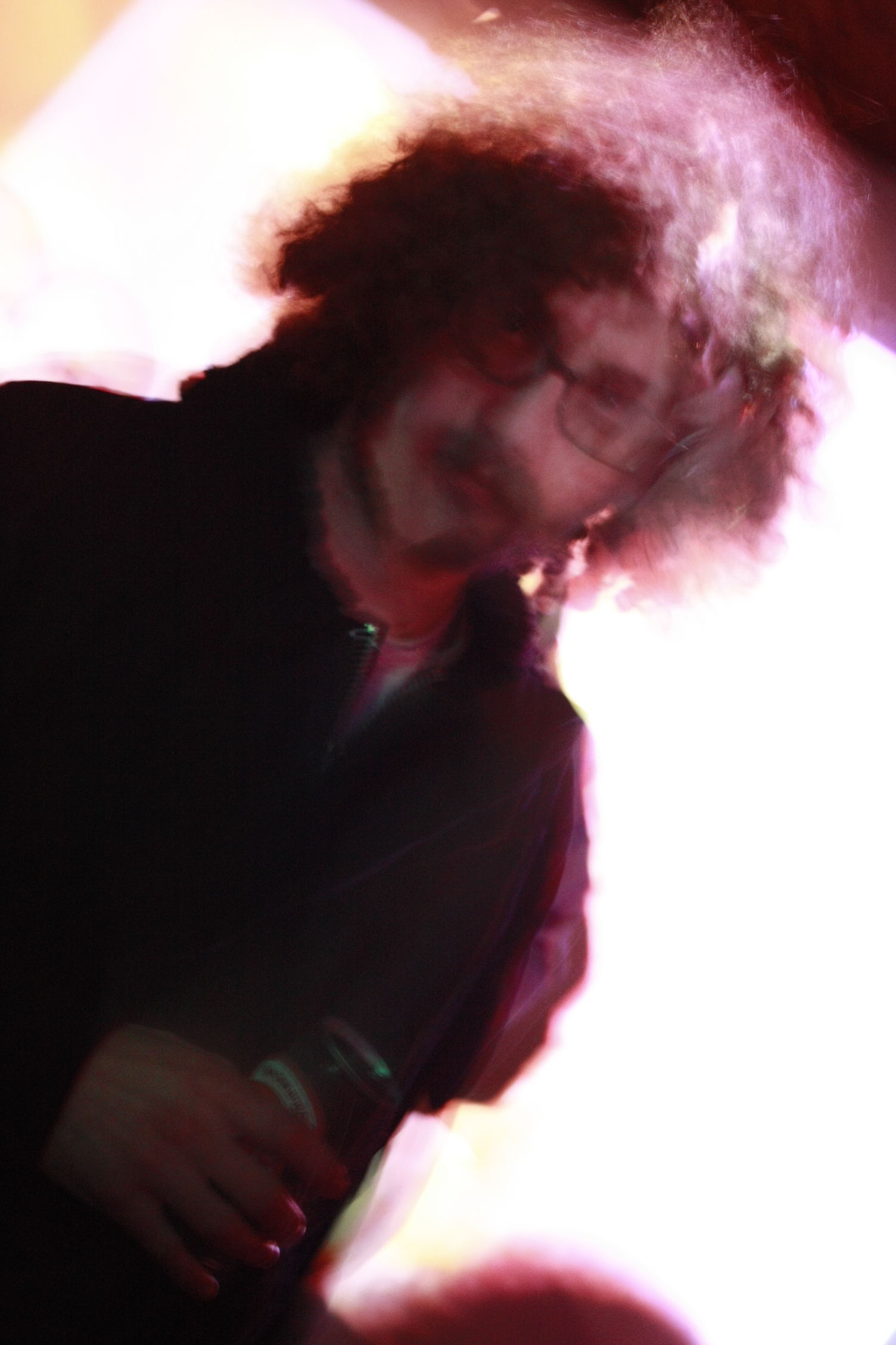 The Gaslamp Killer at the Grand Star Jazz Club in Los Angeles on 3 January 2009.